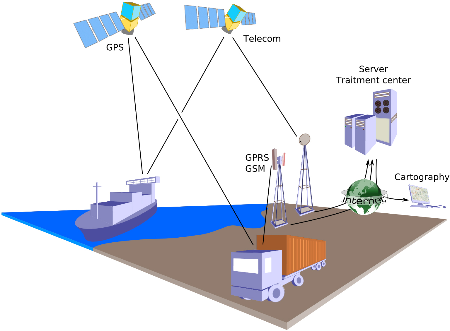 Principle of geolocation with GPS. Data transmitted on real-time by telecom satellites or GSM/GPRS network.